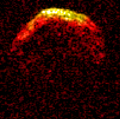 Arecibo radar image of 1950 DA on 4 March 2001, from a distance of 0.052 AU (22 lunar distances). Vertical resolution is 15 m and horizontal resolution is 0.125 Hz (7.9 mm s^-1 in radial velocity). Image from S. Ostro (JPL).